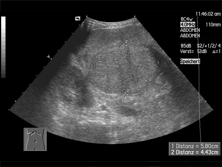 Abdominal ultrasound (transverse sectioning) showing liver cirrhosis with nodular formation in a 3 year old child.